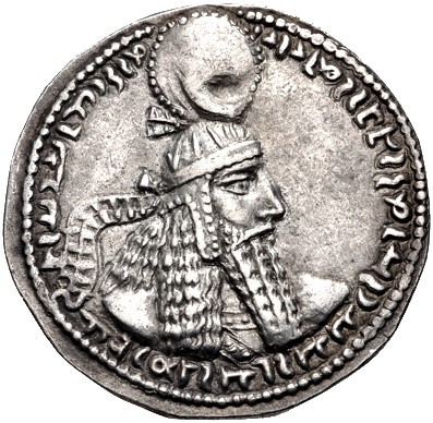 Coin of Ardashir I (phase 3), Hamadan mint.